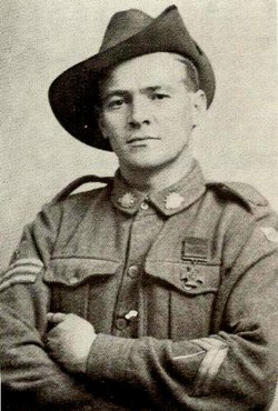 Jørgen Jensen in a sergeant's uniform towards the end of WWI